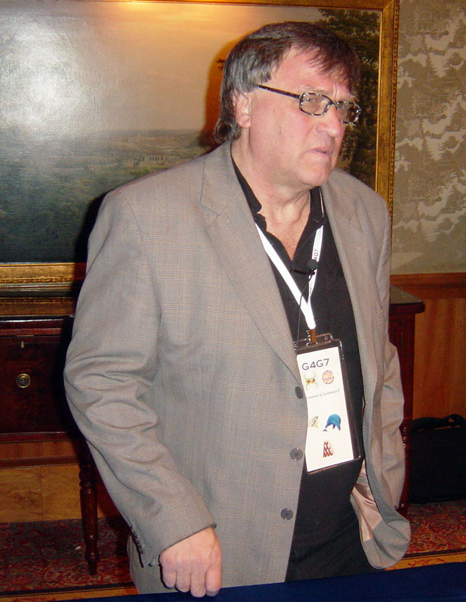 Magician Lennart Green on March 15, 2006 at the Seventh Gathering for Gardner (G4G7) in Atlanta, Georgia.